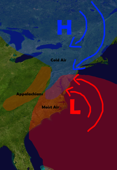 An illustration of the effects of cold air damming over the eastern United States. A high pressure area over eastern Canada funnels cold air down the coast into an oncoming storm system, creating the potential for a major winter storm.